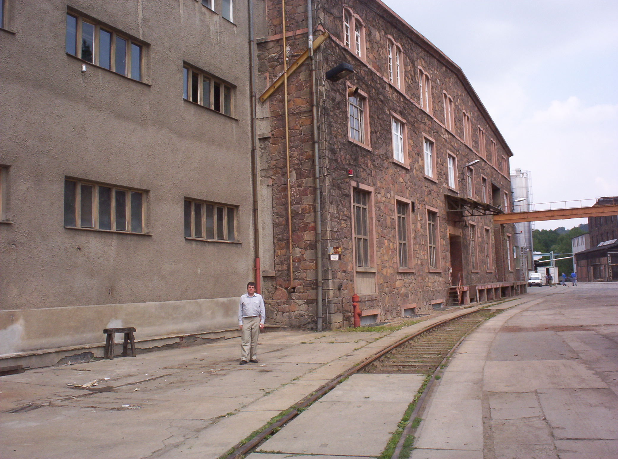 Graham Howard